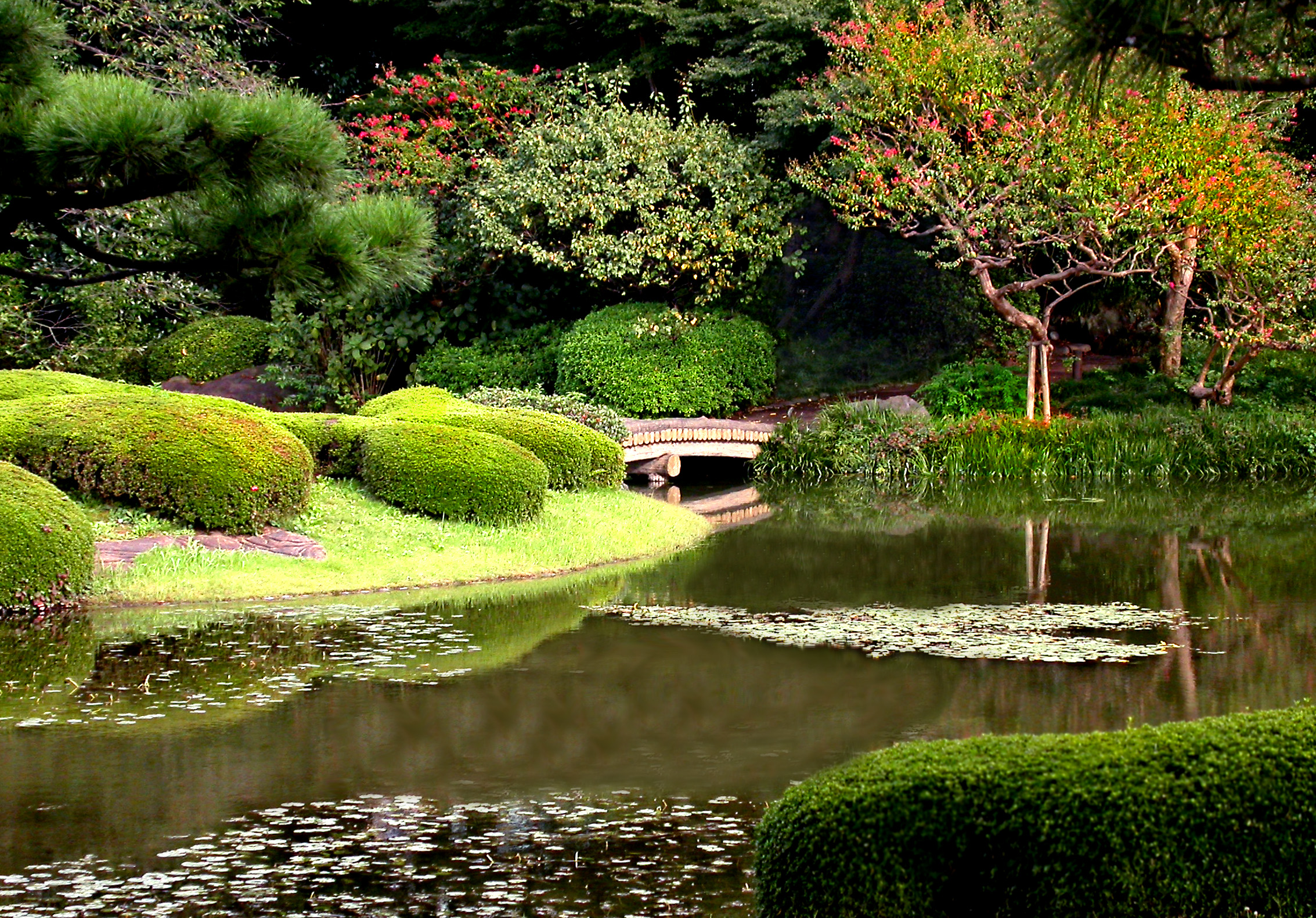 Pond in the Imperial Palace East Garden (Kokyo Higashi Gyoen), Tokyo. Taken on October 9, 2002. The Imperial Palace East Gardens are a part of the inner palace area and are open to the public. The Otemon entrance to the East Gardens is a short walk from Otemachi Station on the Chiyoda, Tozai, Marunouchi, Hanzomon and Mita Subway Lines. It can also be reached in a 10-15 minute walk from Tokyo Station.